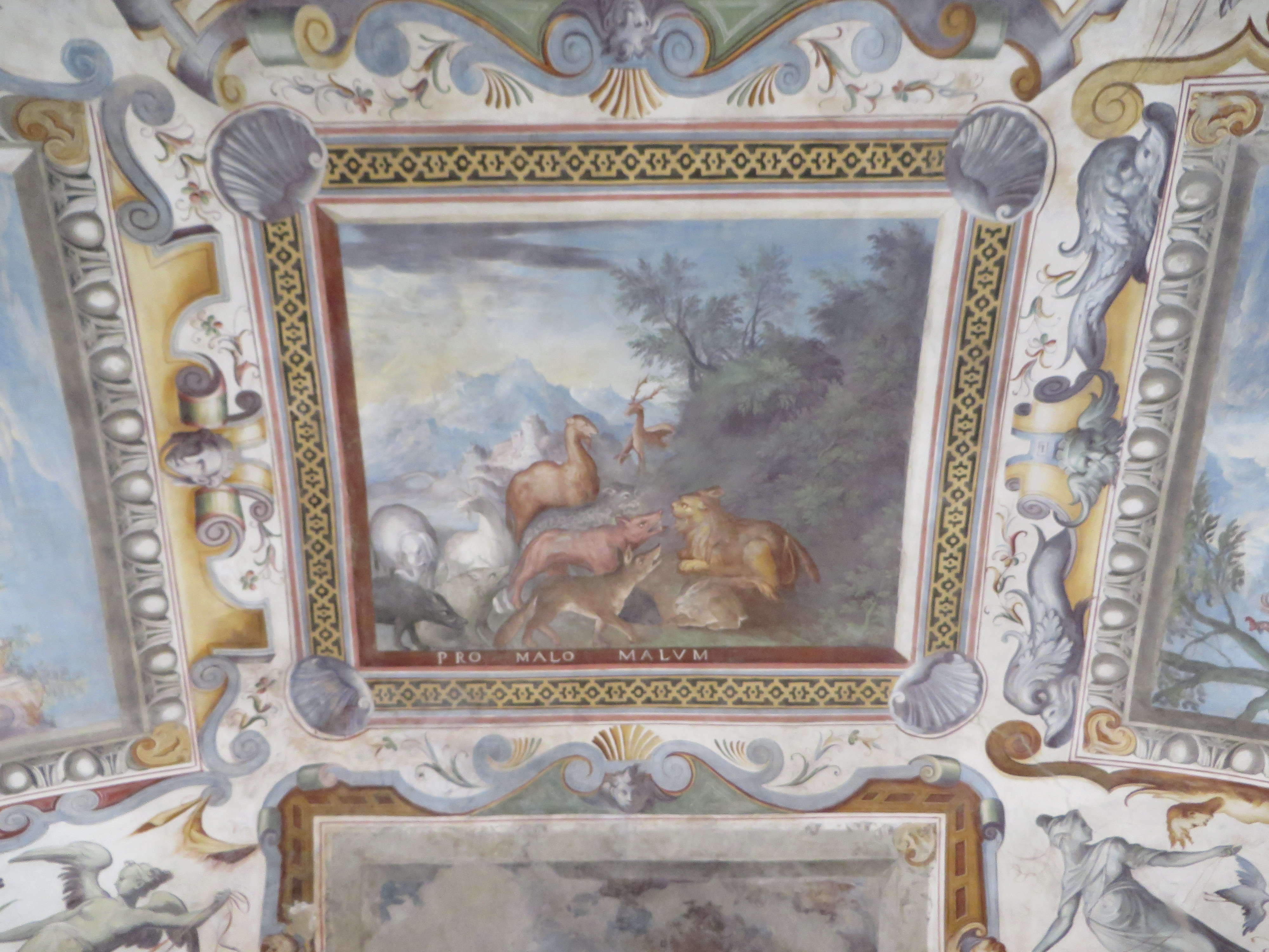 Rossi Castle San Secondo14